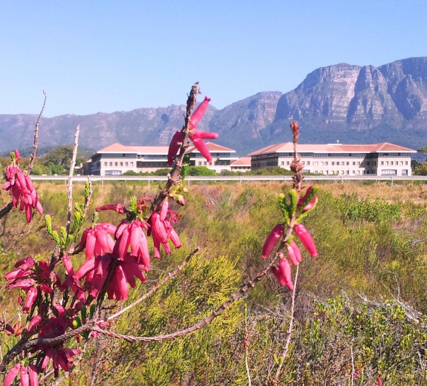 KRCA. Cape Town.